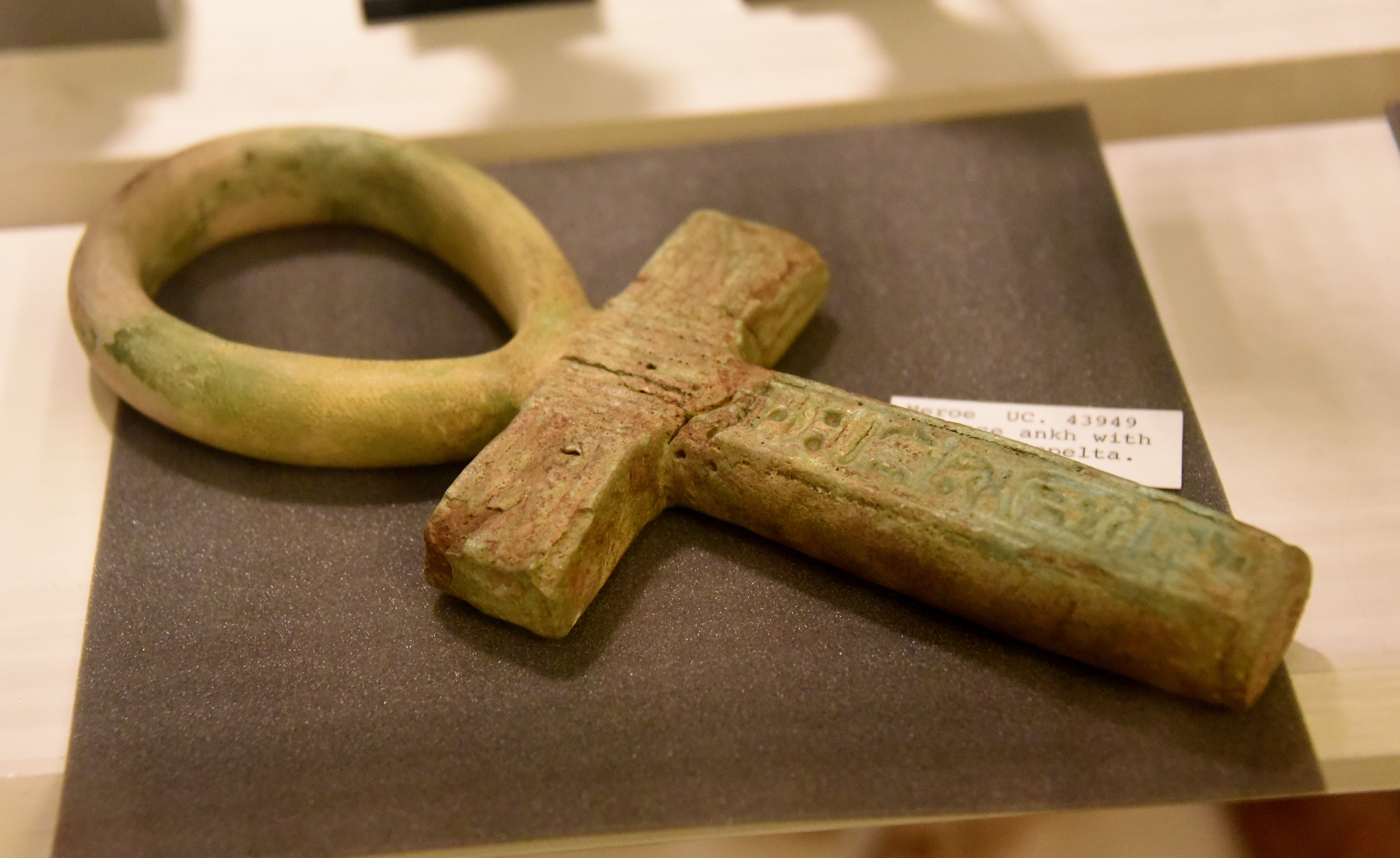 Faience ankh showing cartouches and epithets of Aspelta. From Meroe, modern-day Sudan. The Petrie Museum of Egyptian Archaeology, London. With thanks to the Petrie Museum of Egyptian Archaeology, UCL. NB: Formerly in the Wellcome Collection of Egyptian and Sudanese antiquities.